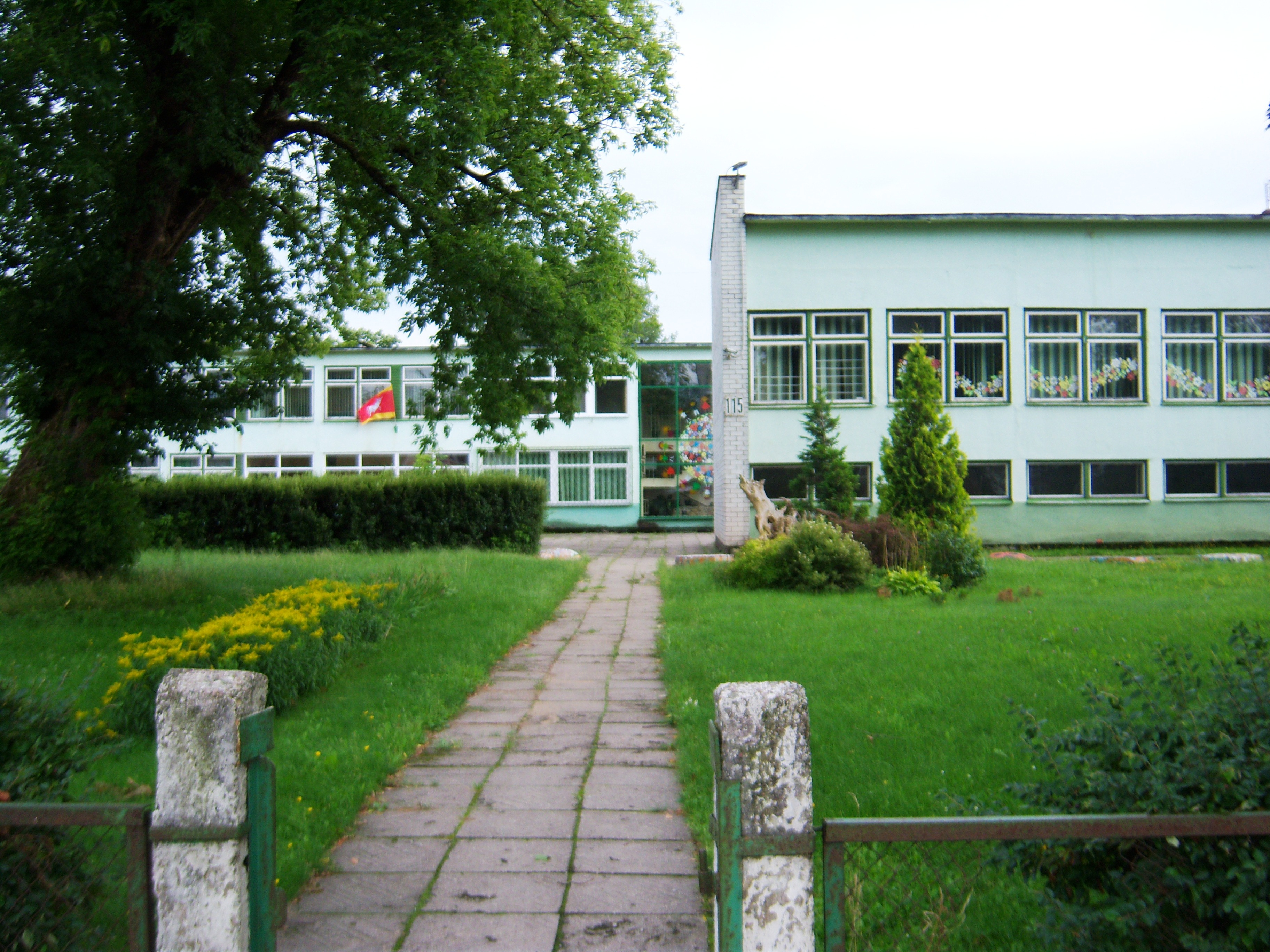 Vaidotas basic school, Kaunas, Lithuania